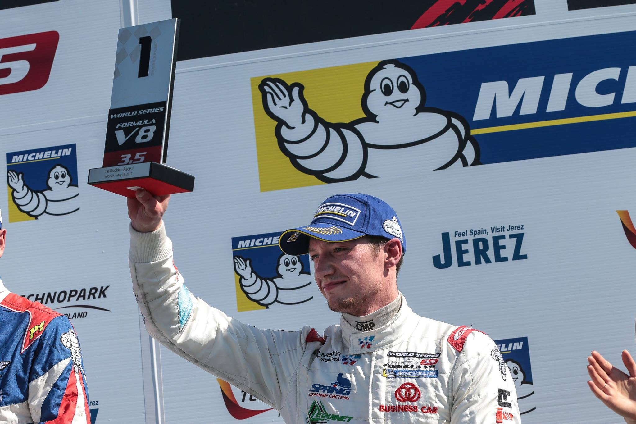 MONZA (IT) 2017 - Second round of the Worldseries Formula V8 3.5 at Autodromo di Monza. Nelson Mason #10 Teo Martin Motorsport. Action. © 2017 Klaas Norg / Dutch Photo Agency